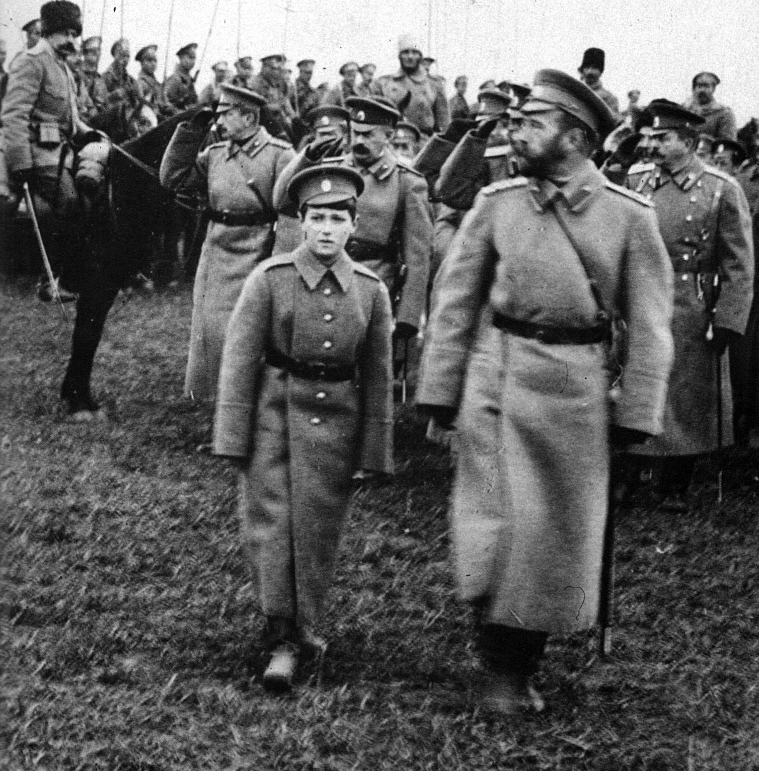 Supreme Commander of the Russian army Emperor Nicholas Alexandrovich and corporal of Russian army Tsarevich Alexei Nikolaevich at the location of military units.